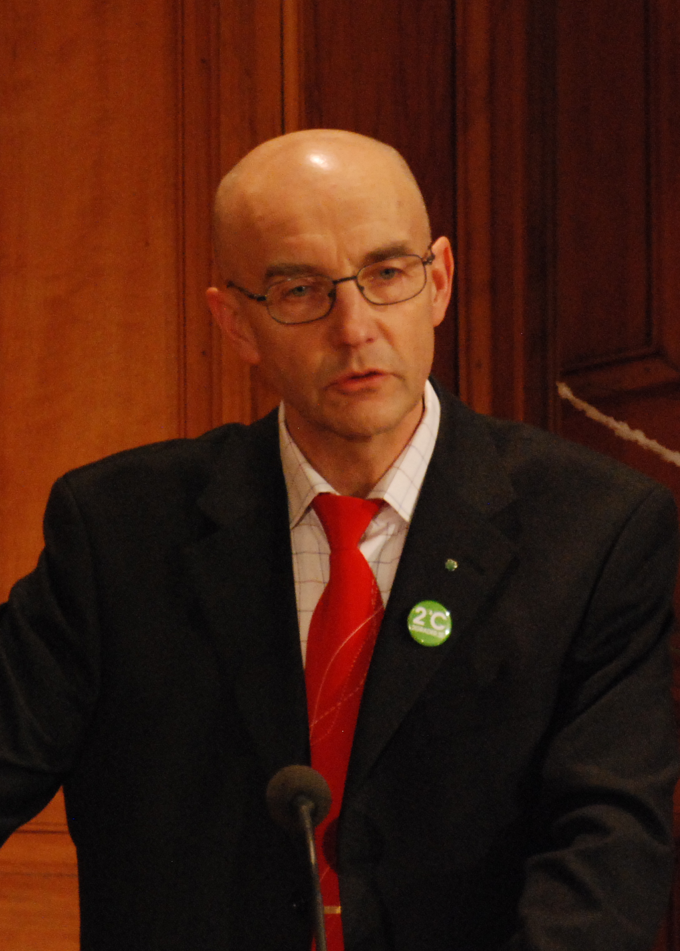 Award Ceremnony of the 30th Right Livelihood Award 2009: Ceremony welcome by Sven Bergström